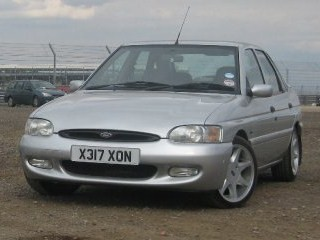 final edition escort 5door